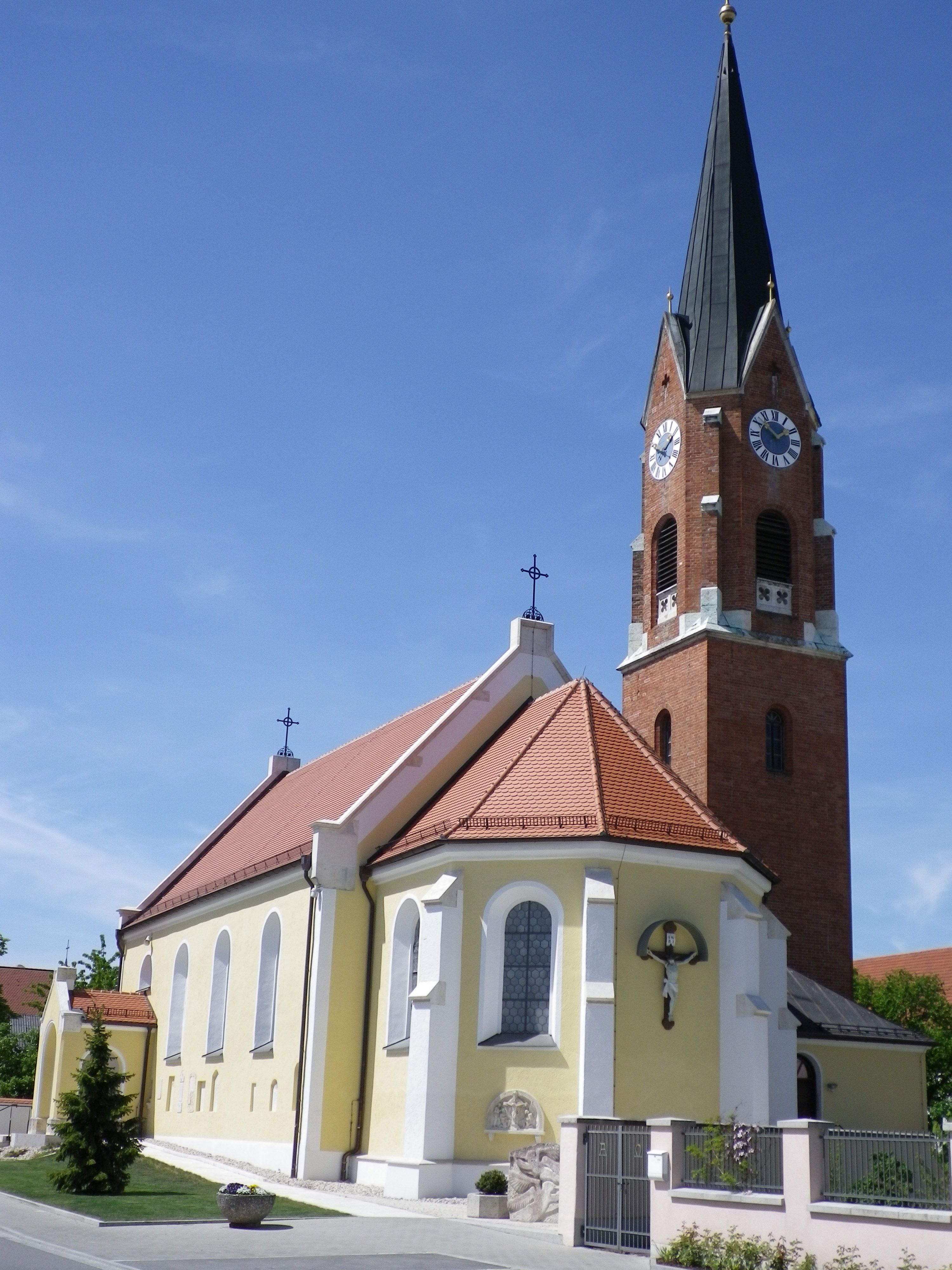 This is a photograph of an architectural monument.